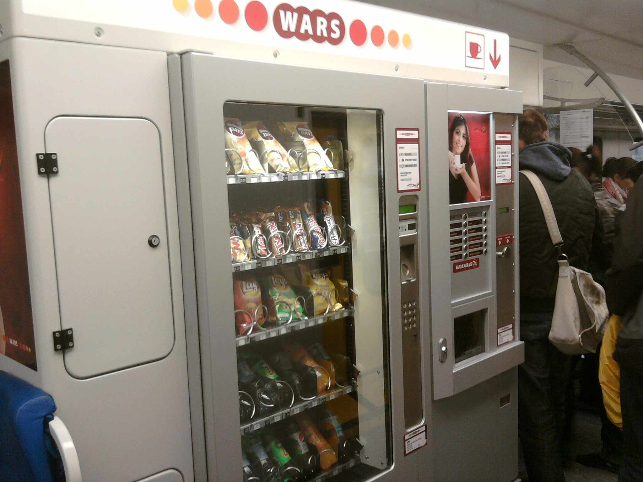 Vending machine in EN57AKŚ-730